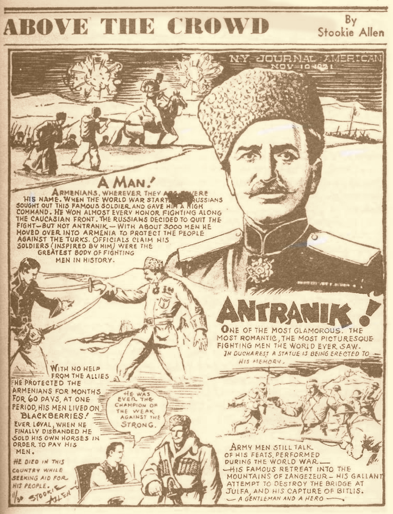 From the New York Journal-American, November 1921